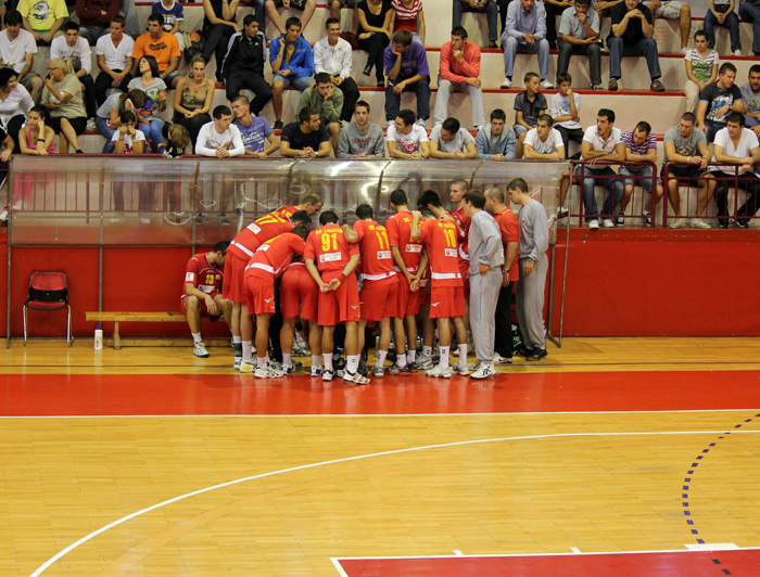 Lovćen - Vardar, SEHA League;Other information: Match RK Lovćen - RK Vardar, October 2011